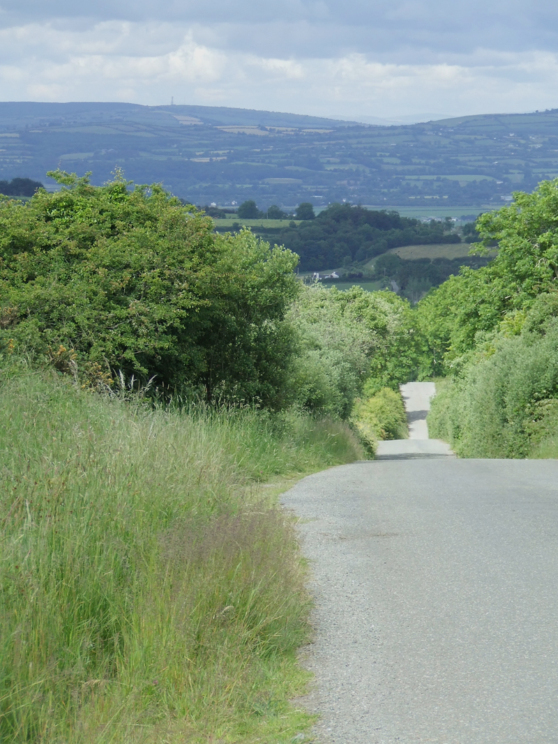 Narrow rural road in hilly landscape in Ireland